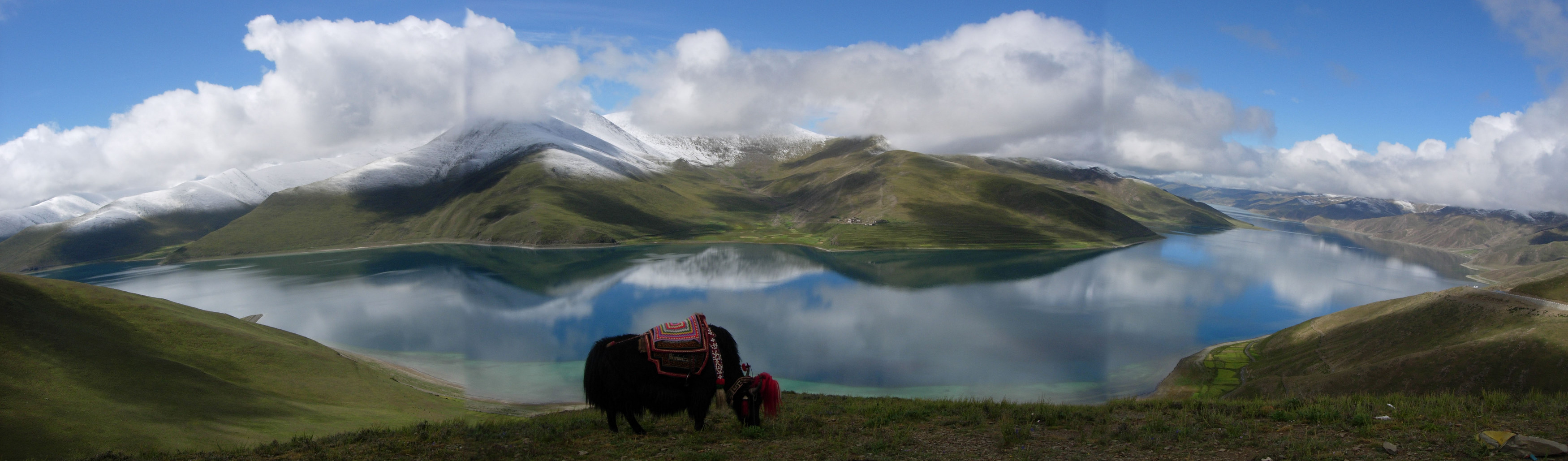 A yak near Yamdrok Lake